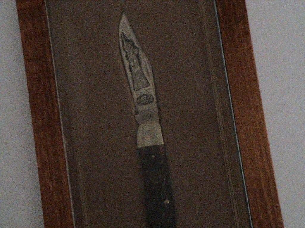 Statue of Liberty Schrade knife produced for the centennial.